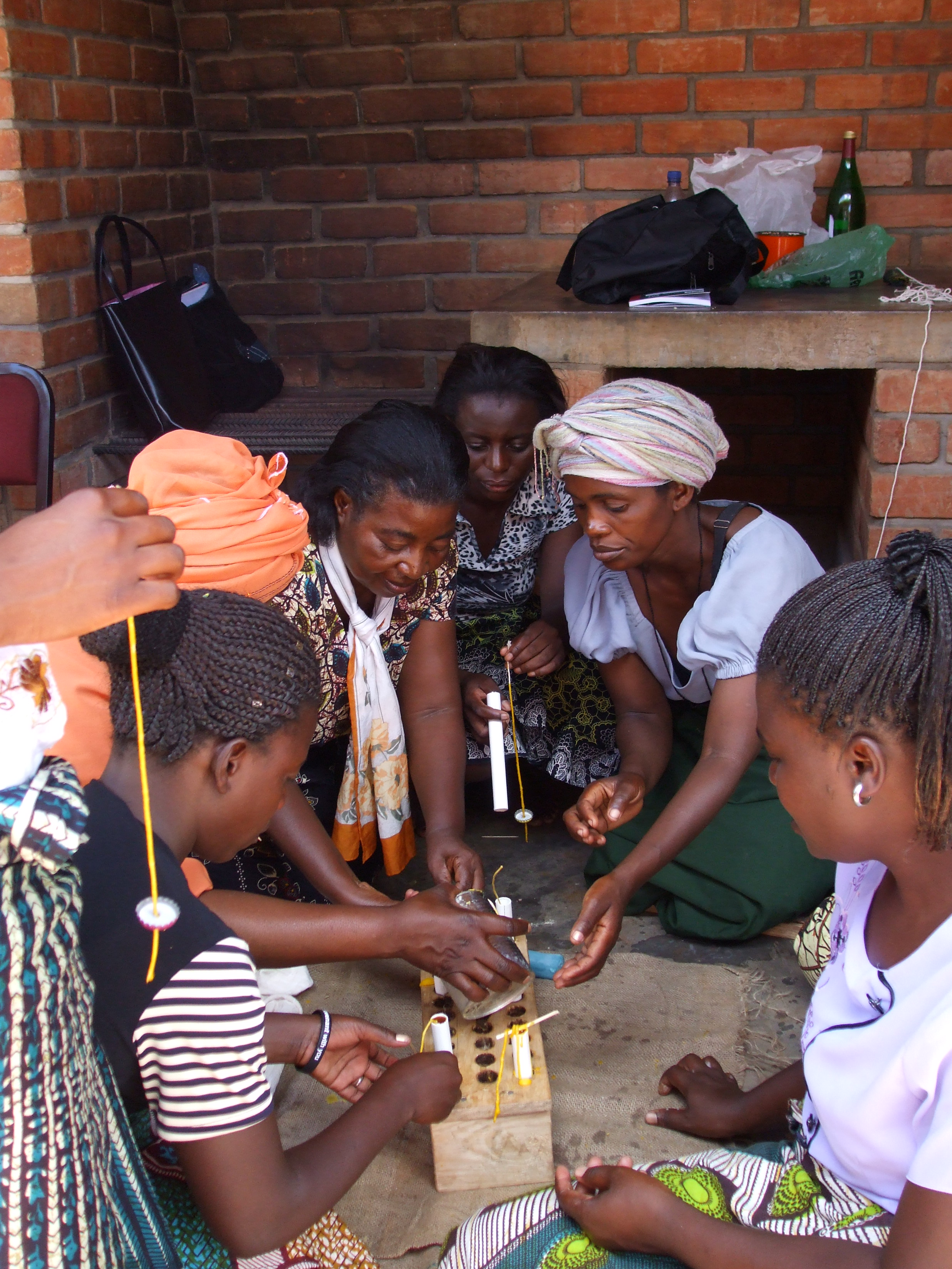 Mbawemi Women's group in Malawi learning how to add value to beeswax by making candles